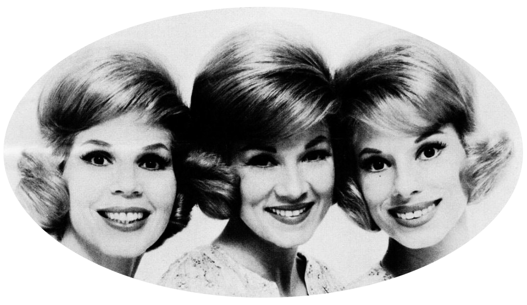 Trade ad for McGuire Sisters' single "Dear Heart".To better adapt it to his respective Wikipedia article, the ad was cropped and cleaned in a graphics editing program. The original can be viewed at the source below.